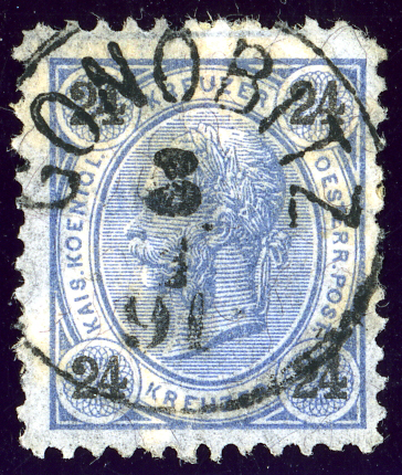 Austrian KK stamp, 2 kreuzer issue 1890, cancelled GONOBITZ (Styria) in 1891, now Slovenske Konjice (Slovenia).